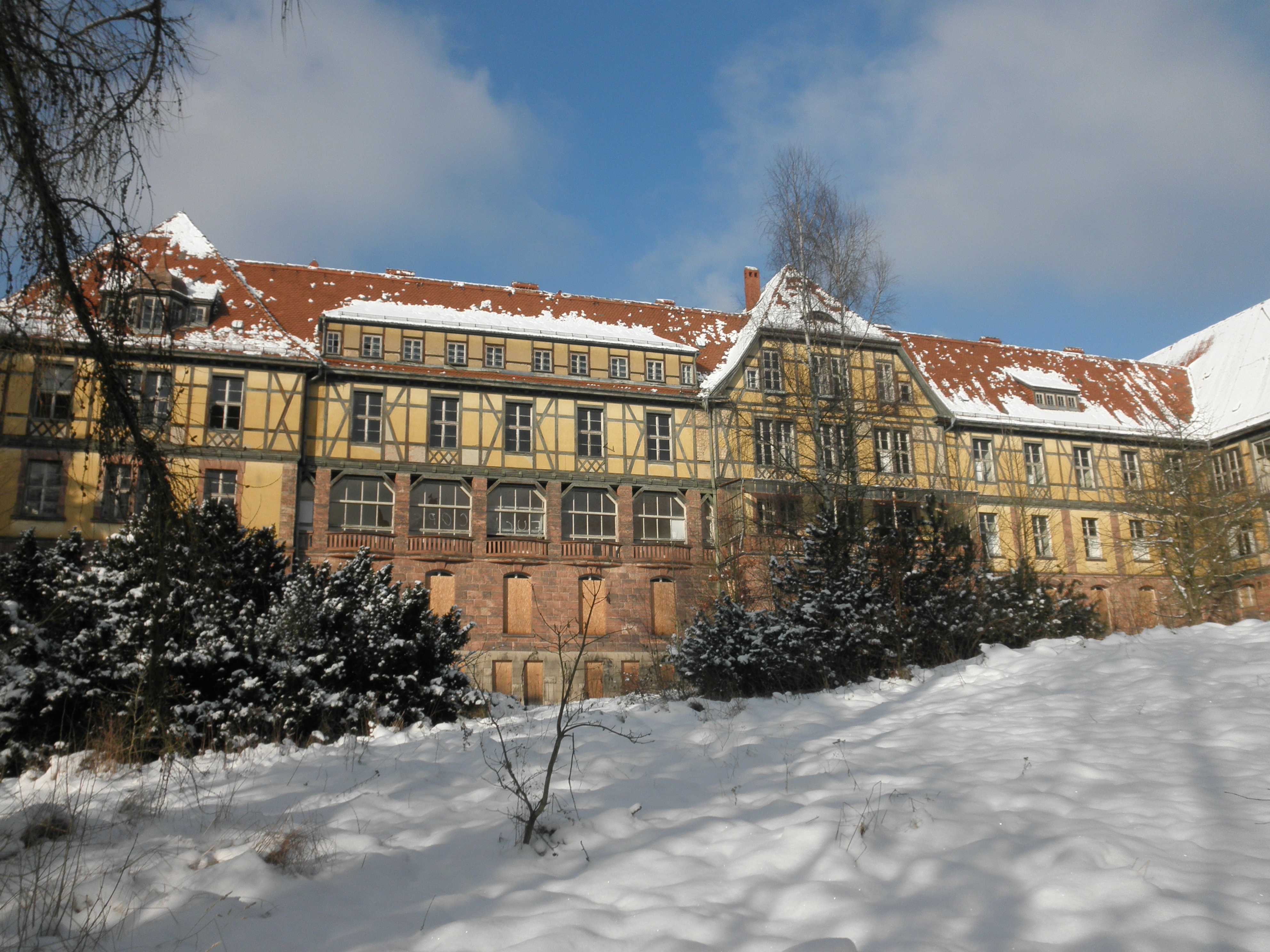 Former Infirmary Sophienheilstätte in München (Bad Berka) in Thuringia